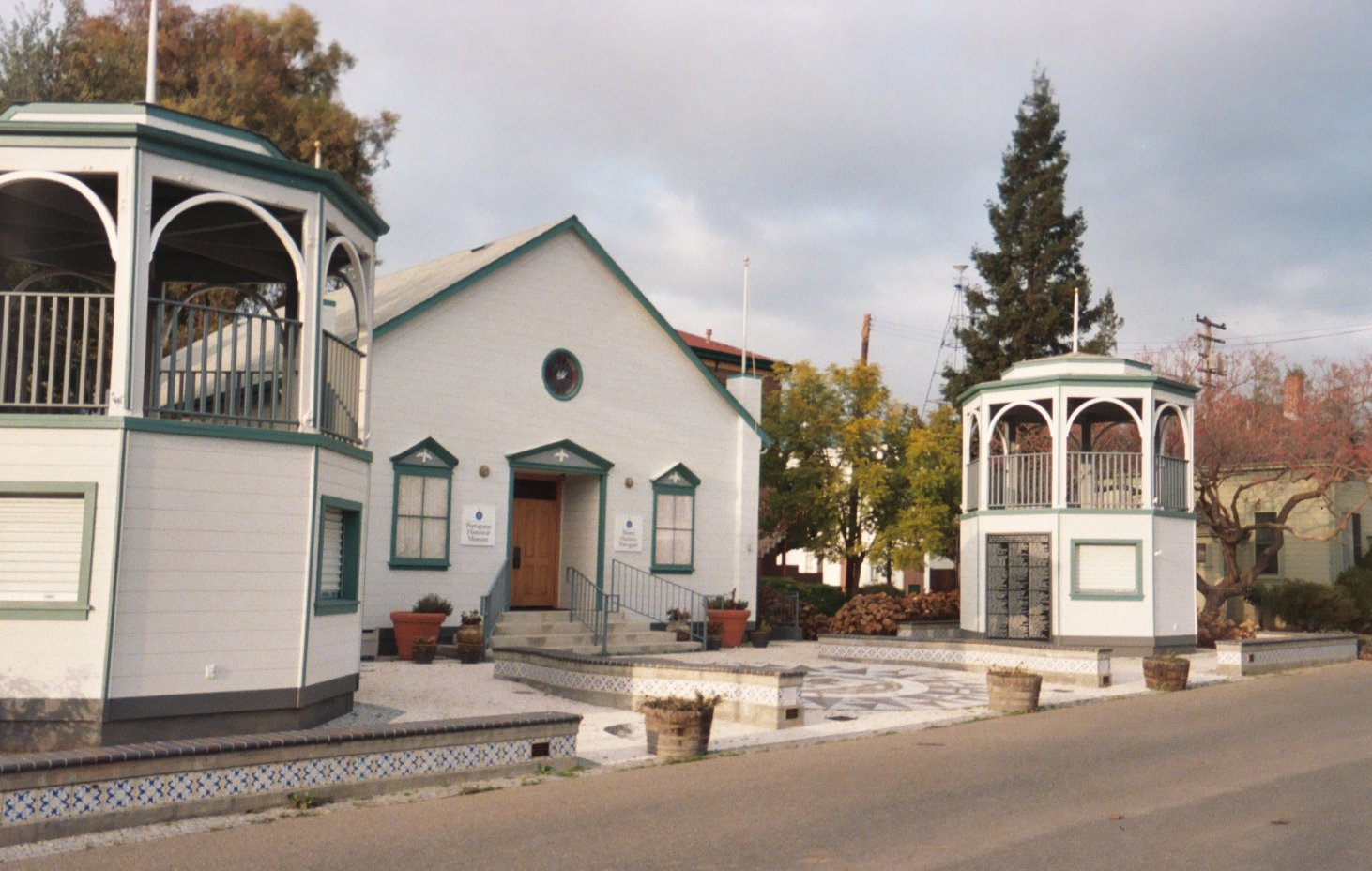 Taken by me December 2004